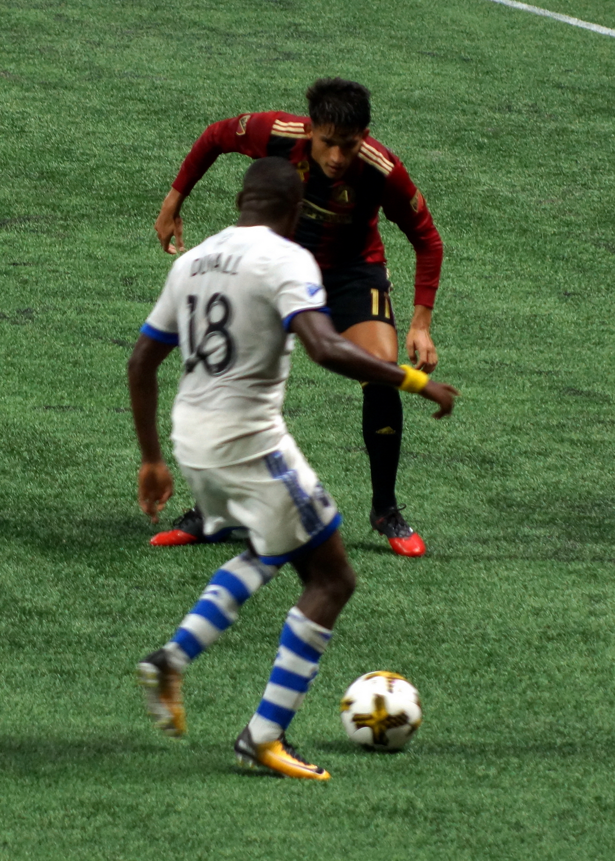 2017-09-24 playing for Atlanta United vs FC Dallas